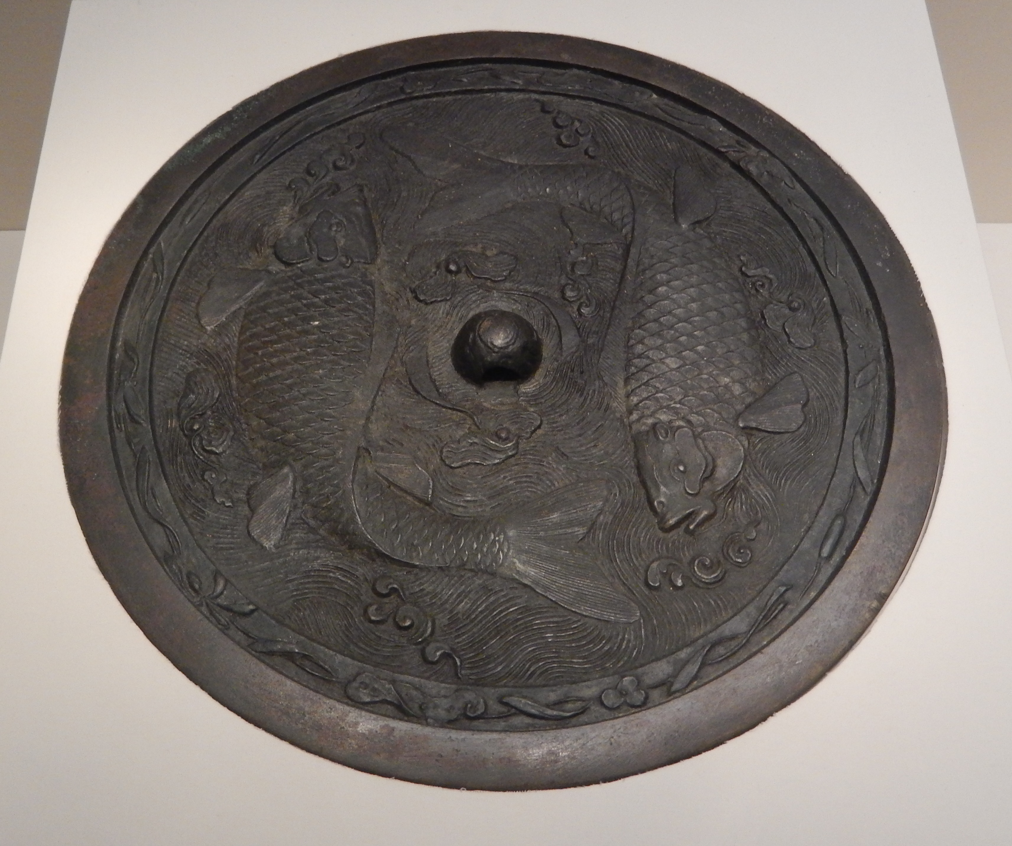 Bronze mirror with double fish. Jin Dynasty (1115-1234). Unearthed at Acheng, Heilongjiang, 1964. This is the largest known Jin dynasty mirror, with a diameter of 43 cm, and weighing 12 kg. National Museum of China, Beijing.